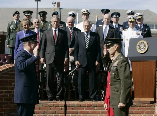 General Richard B. Myers, left, swears-in General Peter Pace, Friday, Sept. 30, 2005, as the new Chairman of the Joint Chiefs of Staff, during The Armed Forces Farewell Tribute in Honor of General Myers and the Armed Forces Hail in Honor of General Pace at Fort Myer's Summerall Field in Ft. Myer, Va., with President George W. Bush, Defense Secretary Donald Rumsfeld looking on.